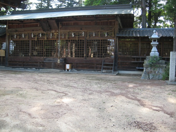 The photograph taken of Kumano shrine in Azumino, Nagano, Japan. Tada Kasuke and his followers gathered here to discuss the issue of appealing to the government more than three hundred years ago.